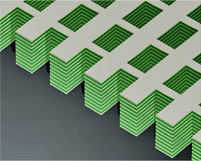 Caption - A schematic of the first 3-D "fishnet" metamaterial that can achieve a negative index of refraction in visible and near-infrared wavelengths. Scientists at the University of California, Berkeley, have for the first time engineered 3-D materials that can reverse the natural direction of visible and near-infrared light, a development that could help form the basis for higher resolution optical imaging, nanocircuits for high-powered computers.